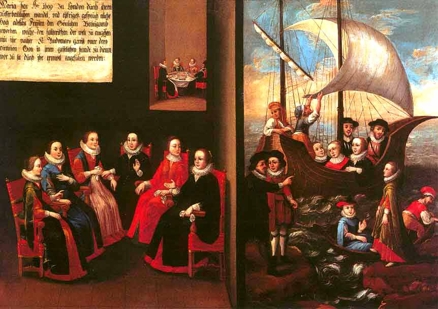 Painted Life of Mary Ward